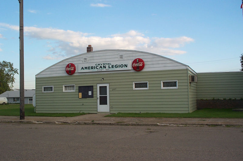 Crystal, North Dakota. From .